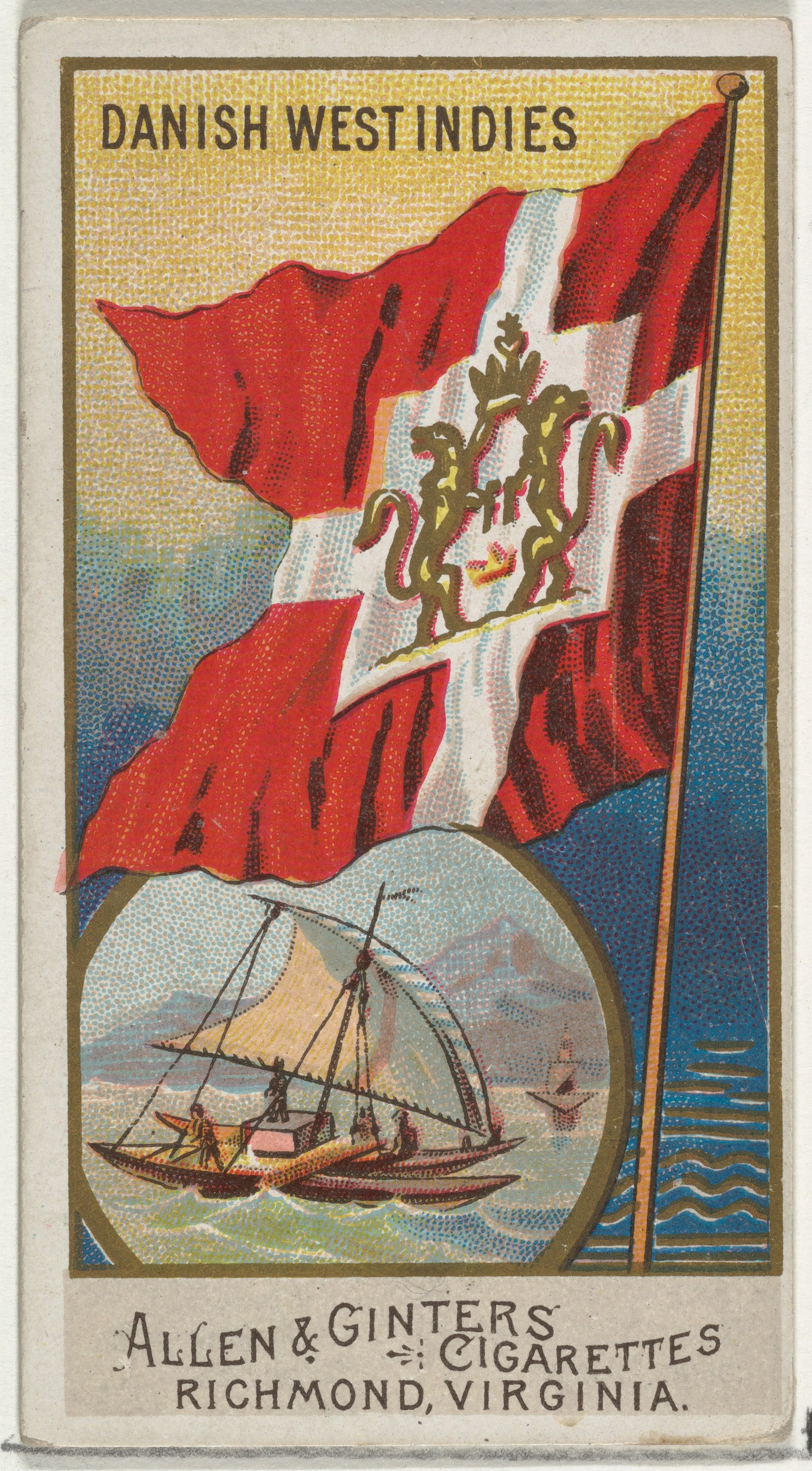 Print; Prints/Ephemera